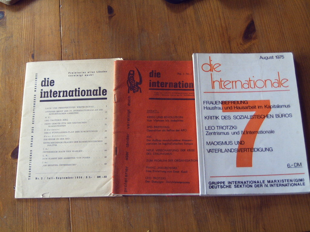 foto of three copies of the journal "Die Internationale"/Foto von drei Ausgaben der Zeitschrift "Die Internationale"